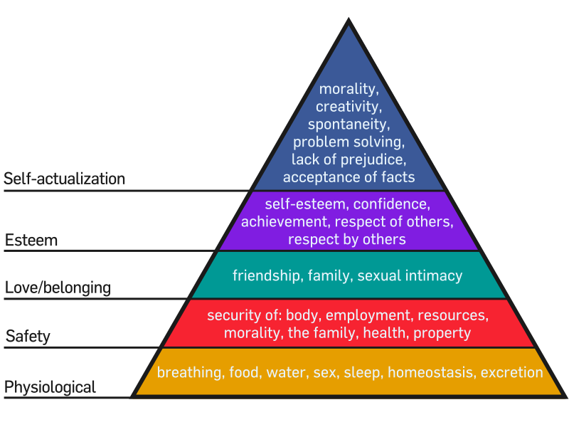 This figure shows Maslow`s 5 levels of needs